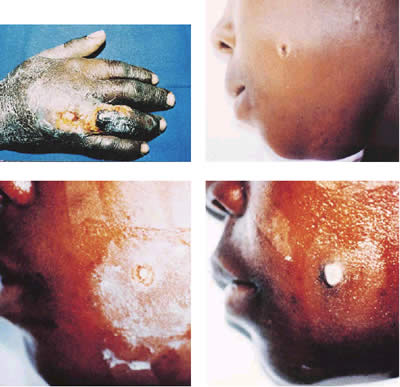 Cutaneous Anthrax—Vesicle Development, Day 10.